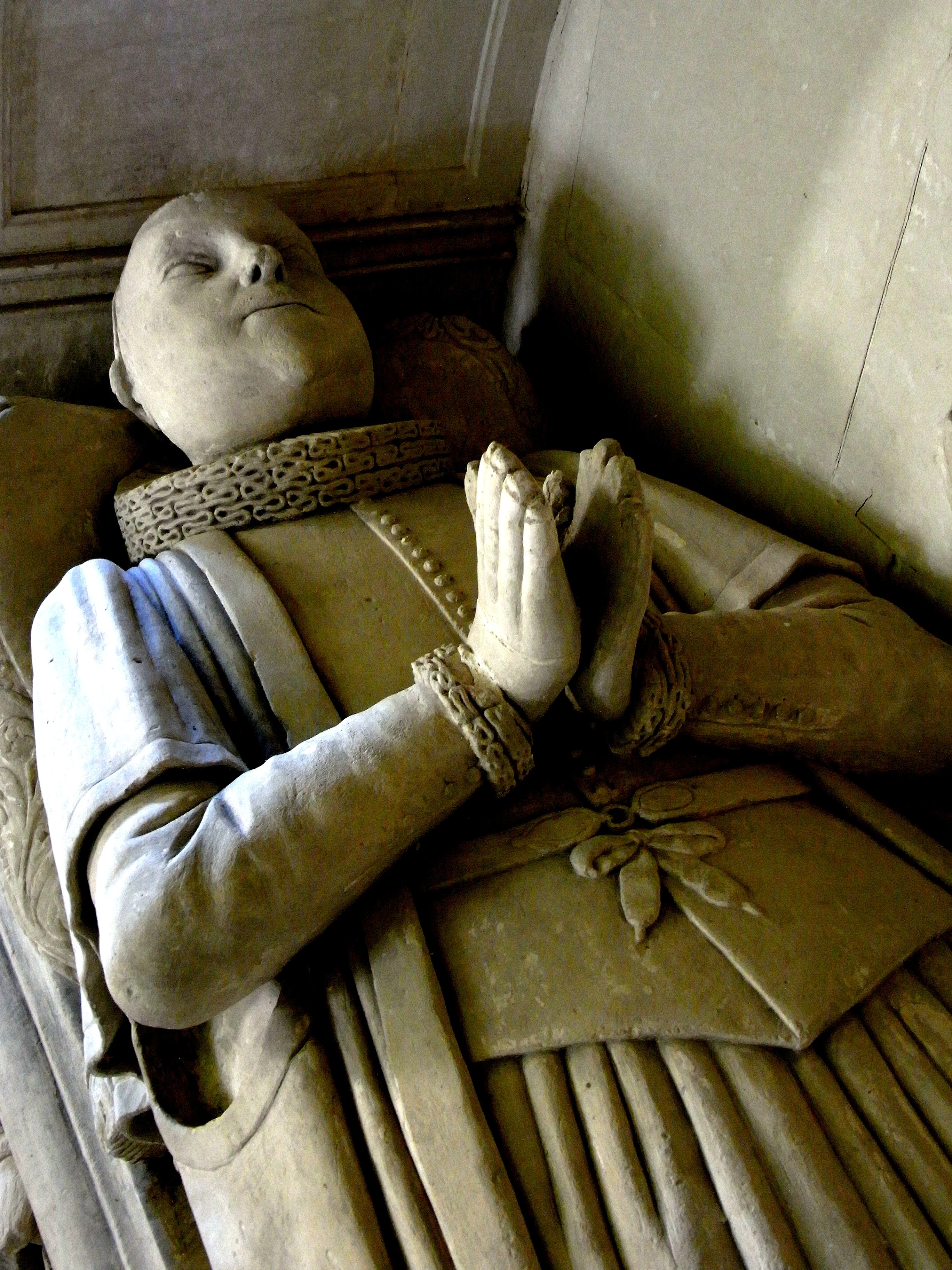 Part of the monument to Sir Edmund Prideaux, 1st Baronet (died 1628), of Netherton in the parish of Farway, Devon, in St Michael and All Angels' parish church, Farway